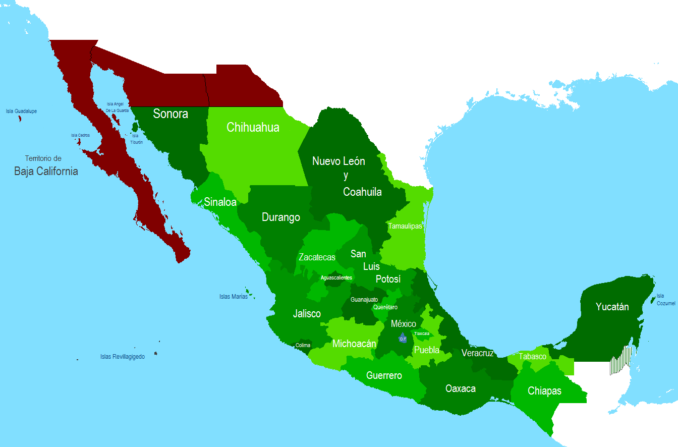 Map of Mexico in 1857, in red the territory that the United States wanted to buy